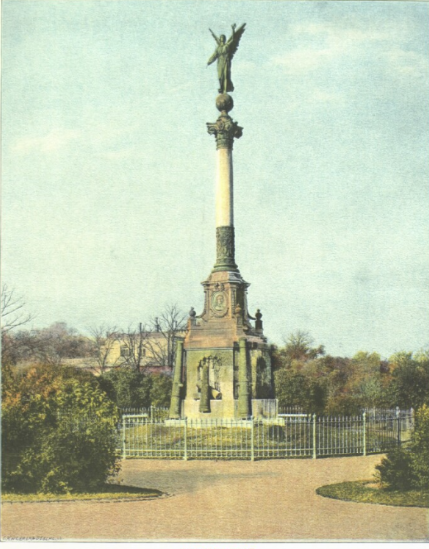 Huitfeldt søjlen in Copenhagen, Denmark